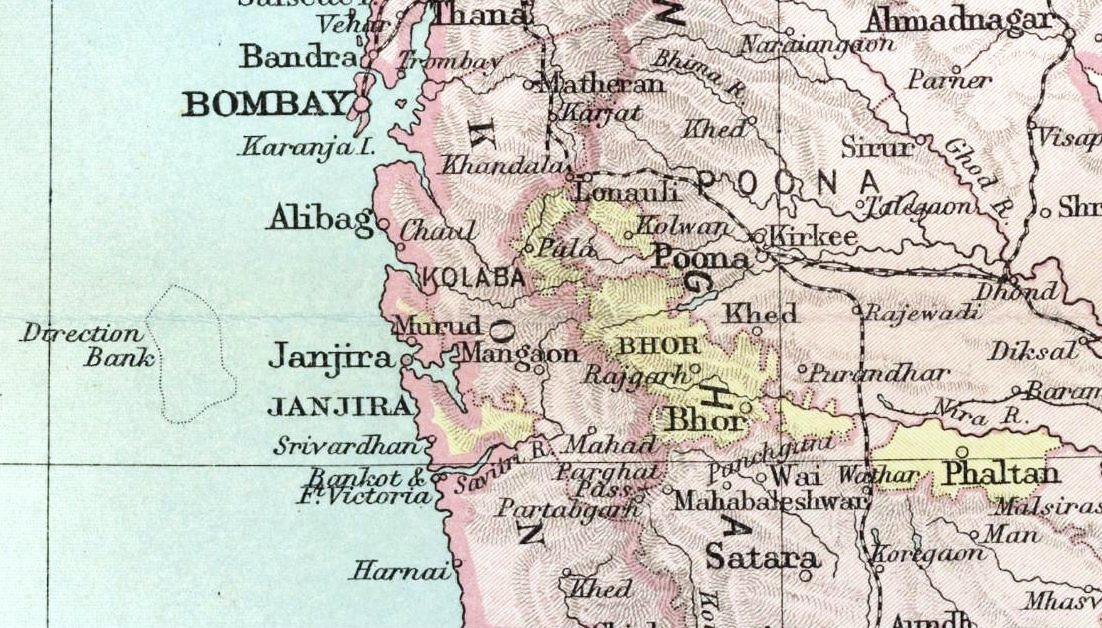 1909 Imperial Gazetteer of India Bombay Presidency II map section